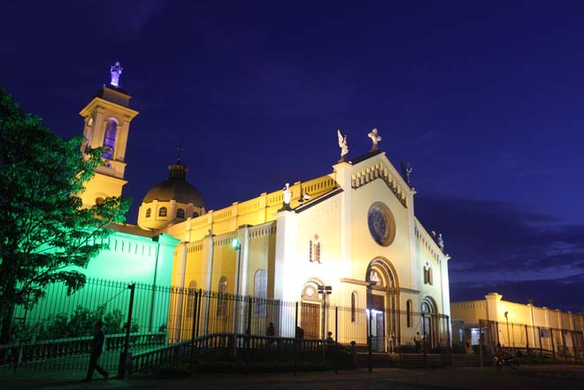 igreja nossa senhora da abadia